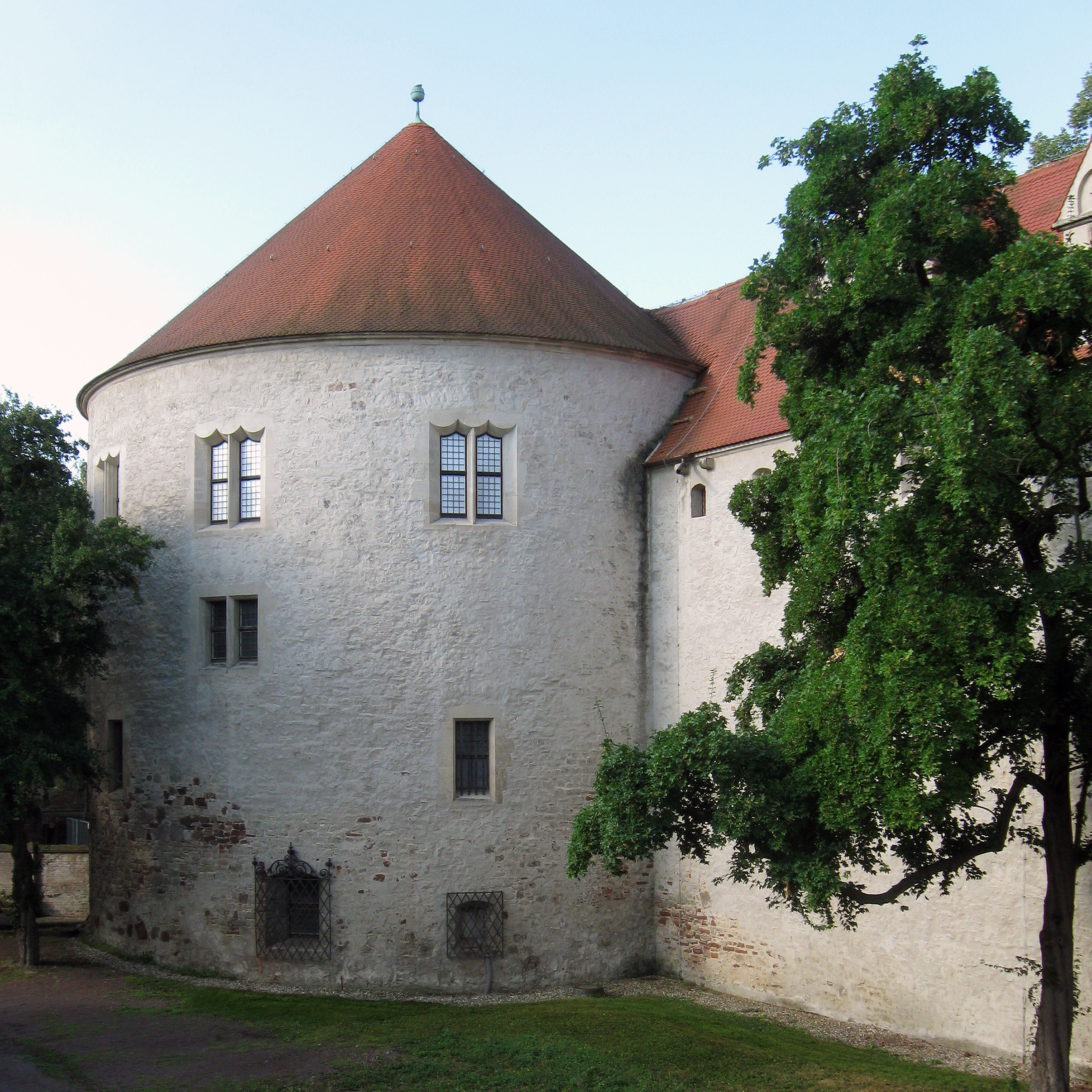 Moritzburg, South-East-Tower with the impressive domed hall